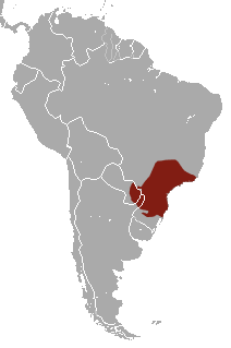 Hensel's Short-tailed Opossum (Monodelphis sorex) range